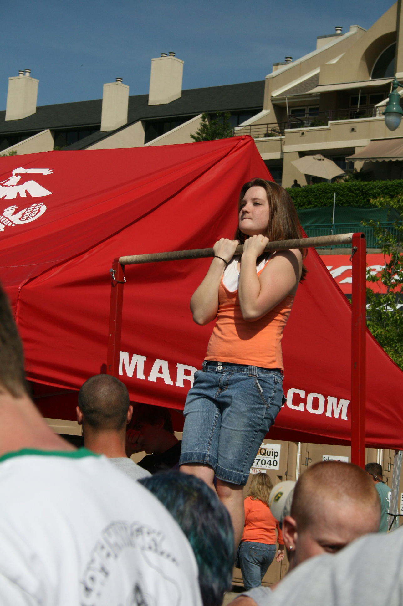 Girl performs chin-up